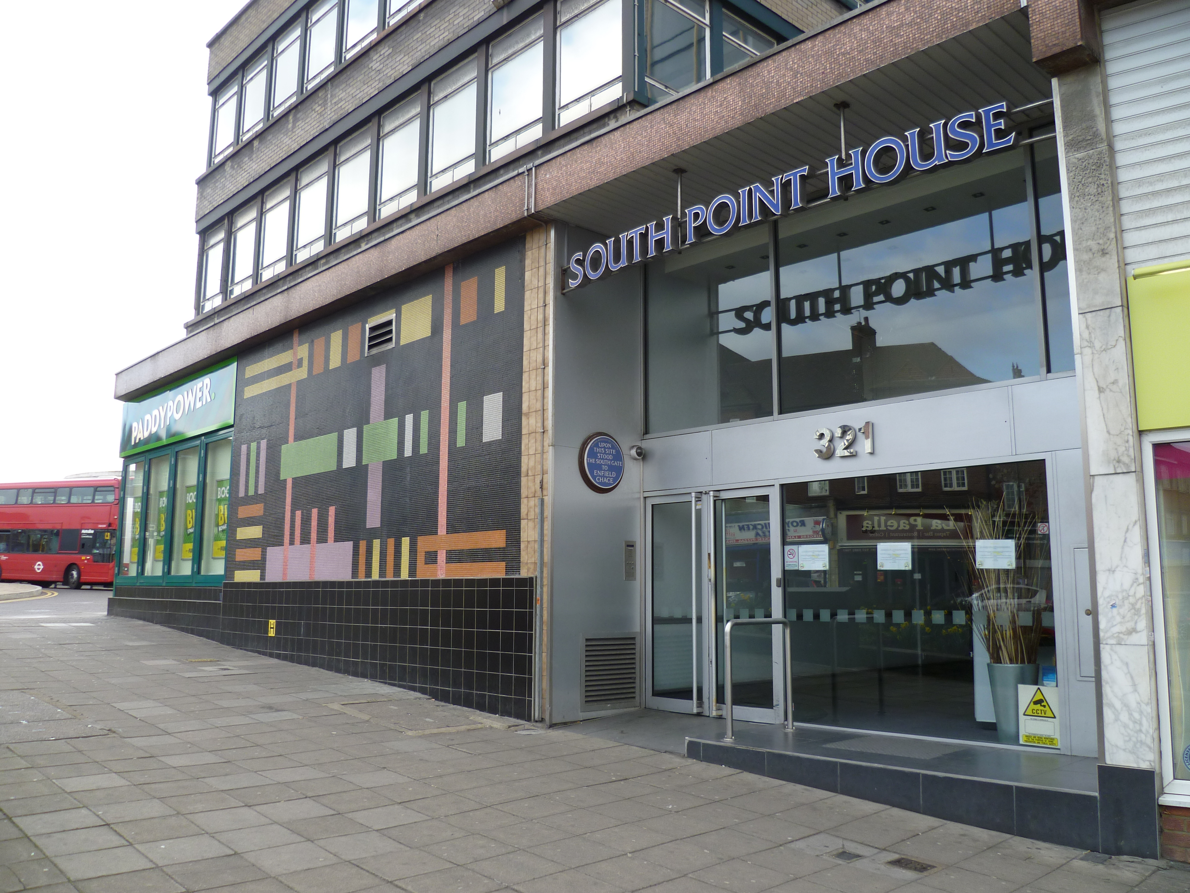 Southgate